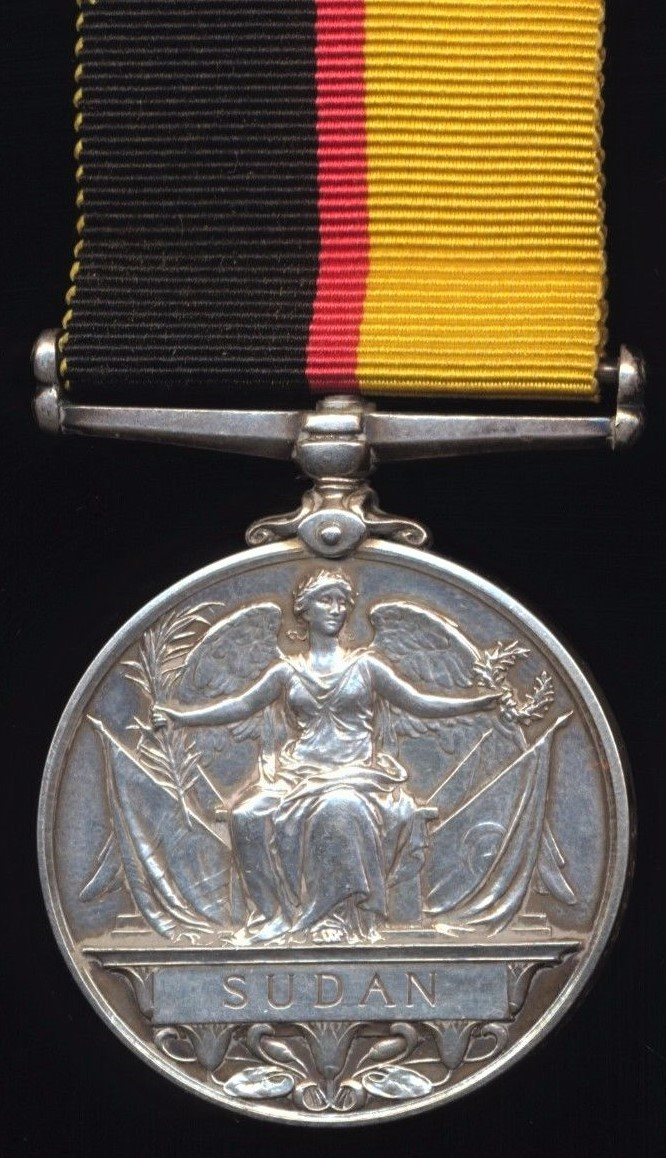 British campaign medal awarded for the Sudanese campaign 1896-98.